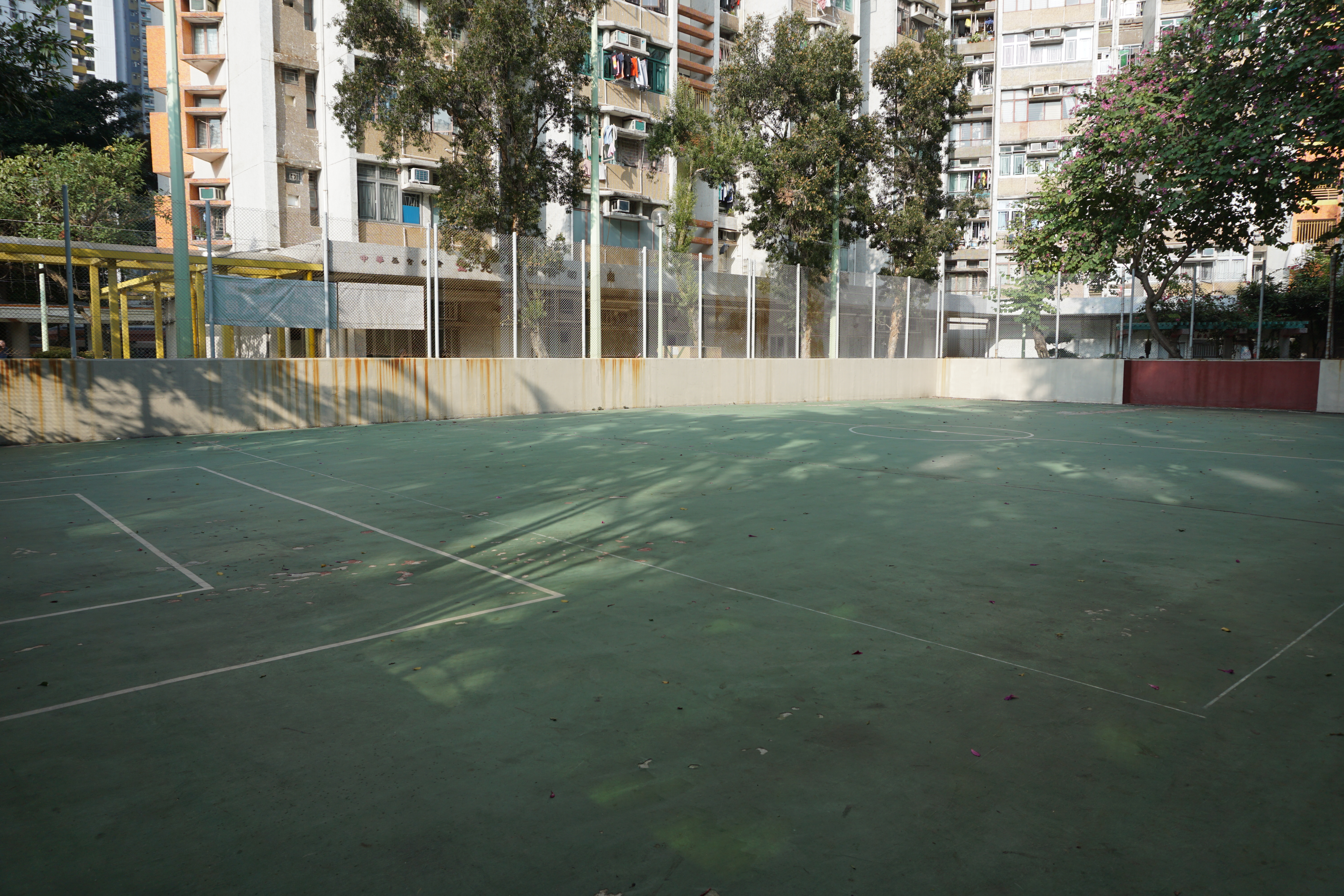 Cheung On Estate in Tsing Yi, Hong Kong.